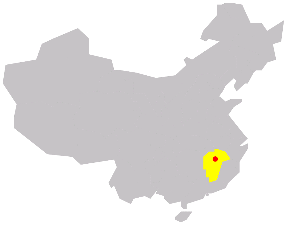 Description: position of Nanchang in China Source: own work Date: December 2005 Author: --Immanuel Giel 13:34, 16 December 2005 (UTC) Other versions: none